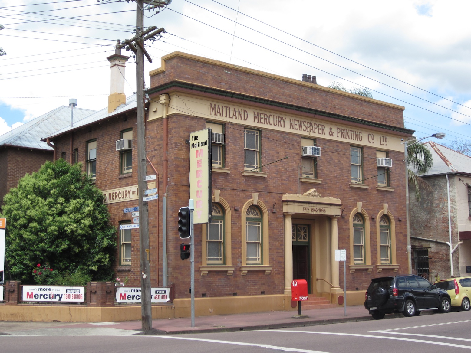 The offices of The Maitland Mercury, situated on High Street, Maitland.